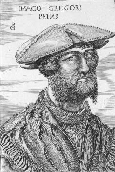 German painter and engraver Georg Pencz (ca. 1500-1550)